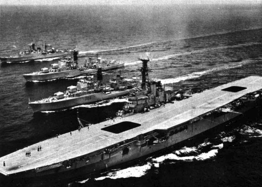 The Australian aircraft carrier HMAS Melbourne (R21) underway with the destroyers HMAS Vendetta (D08), HMAS Voyager (D04) and the frigate HMAS Queenborough (F57), circa 1962.